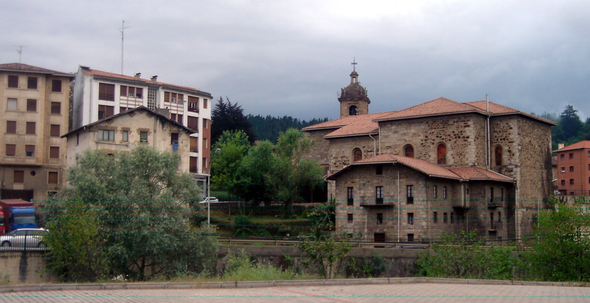 Igorre (Arratia, Biscay, Basque Country, Spain)